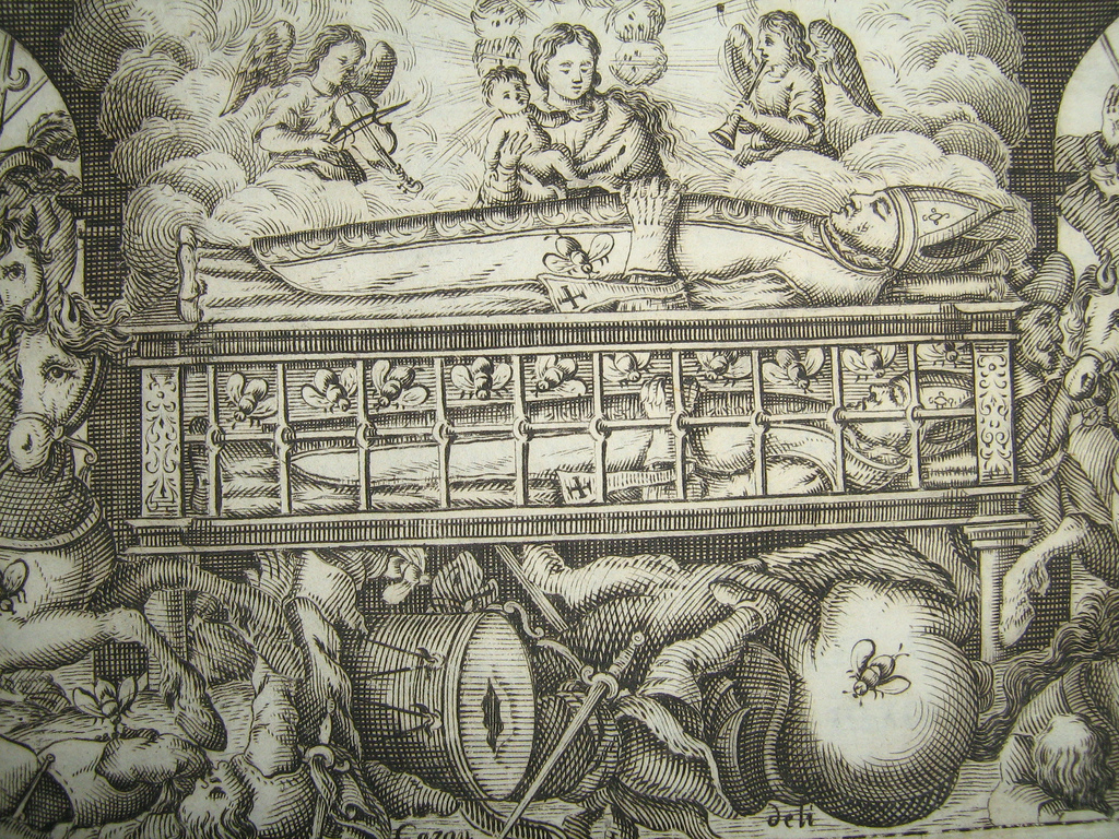 Saint Narcissus of Girona and the miracle of flies, from a printing of 18th cent.